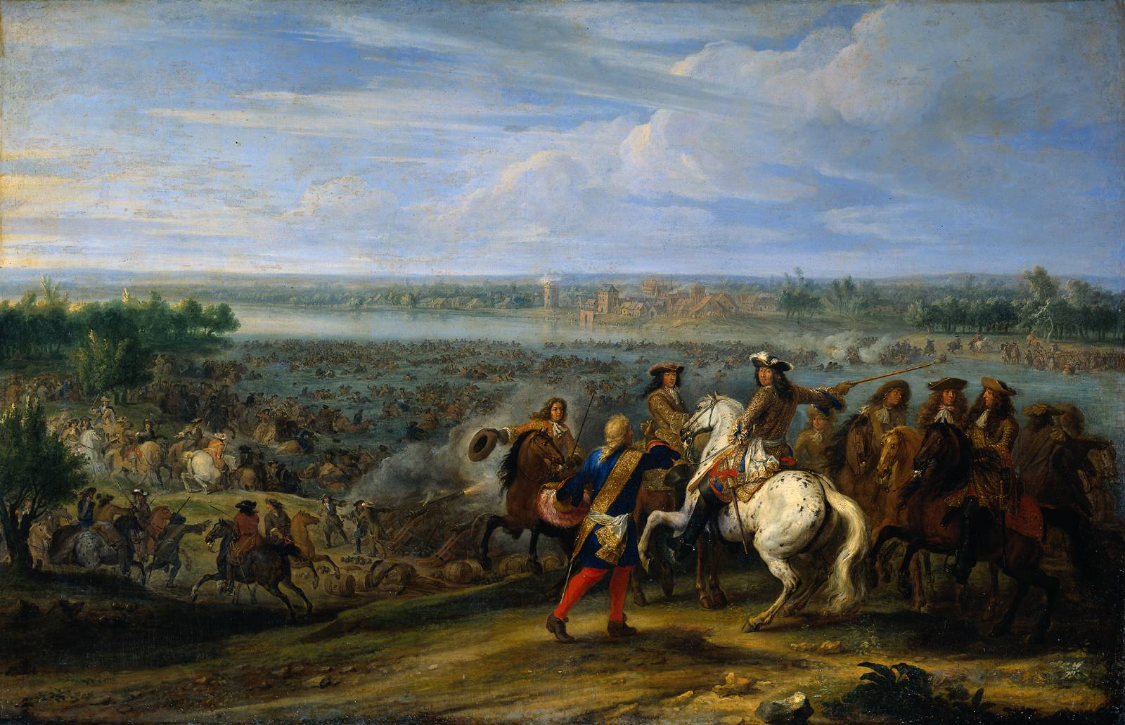 Crossing of the Rhine by French Troops in 1672